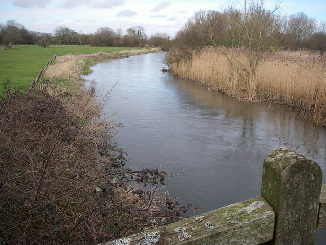 River Avon This is the branch of the Avon that descends the first weir above Bicton, by-passing the mill and fish farm.